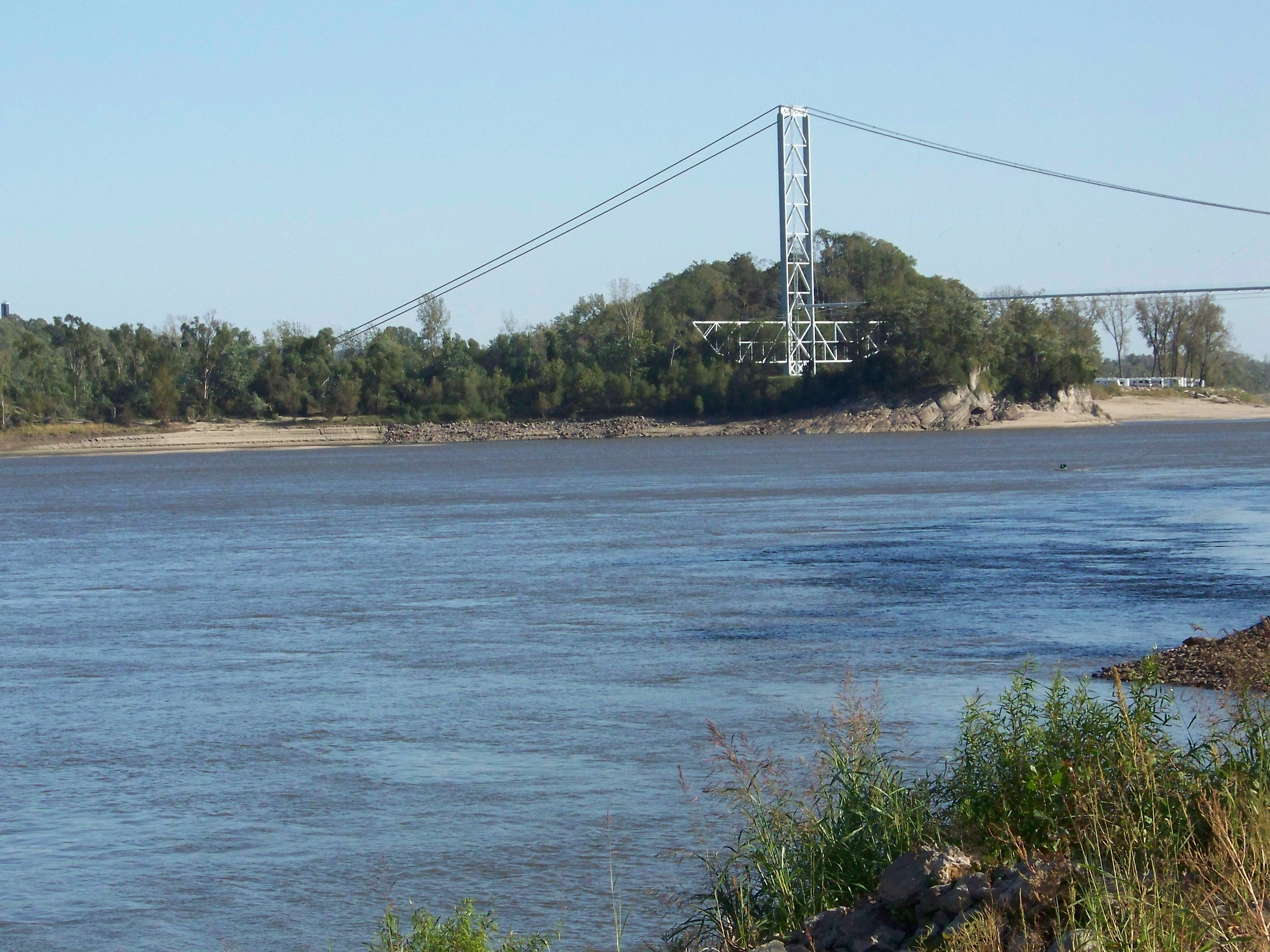 Grand Tower Pipeline Bridge, view from Wittenberg, Missouri